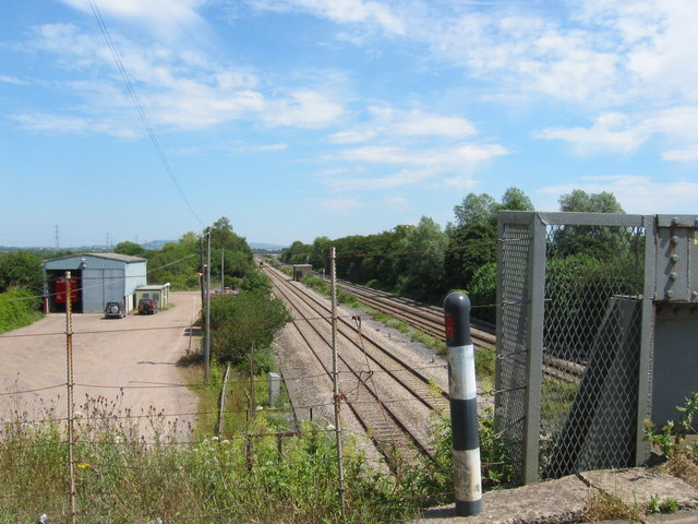 Site of Marshfield Station. On the line between Cardiff and Newport. The fast (passenger) lines are on the left, the slow lines on the right.